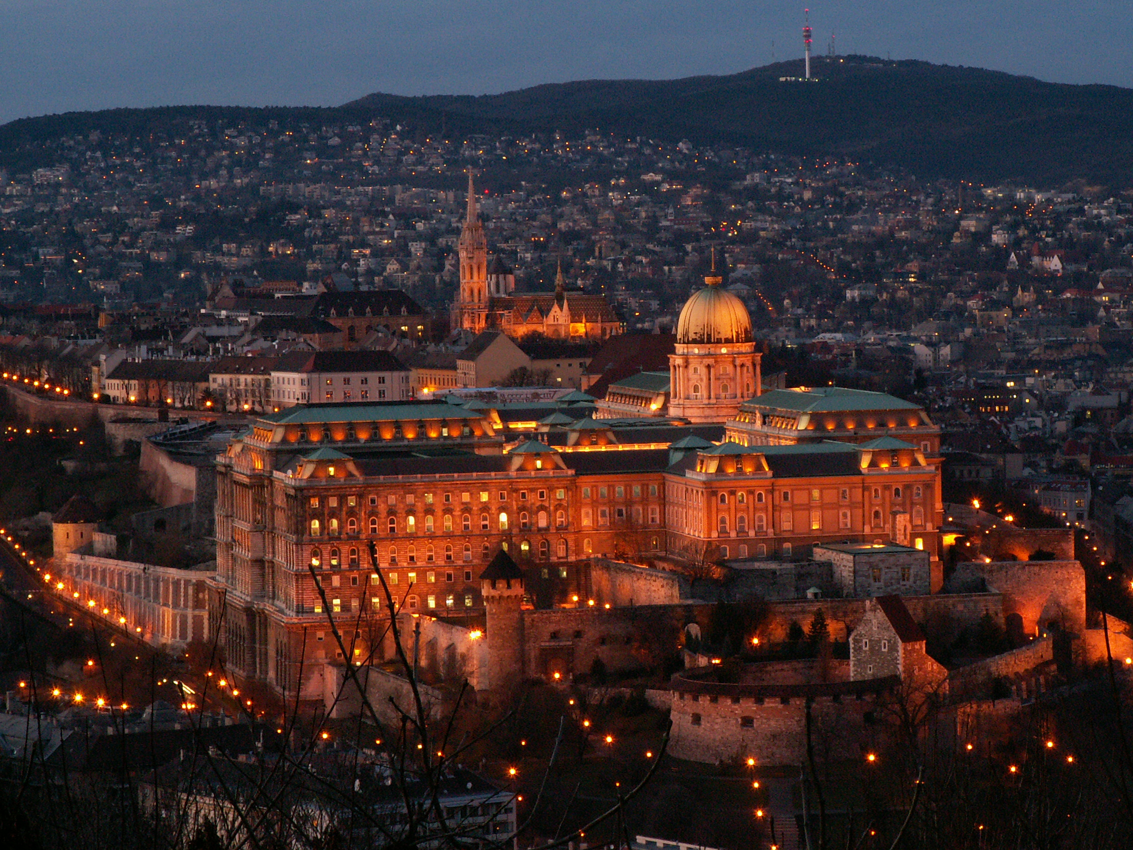 Budapest